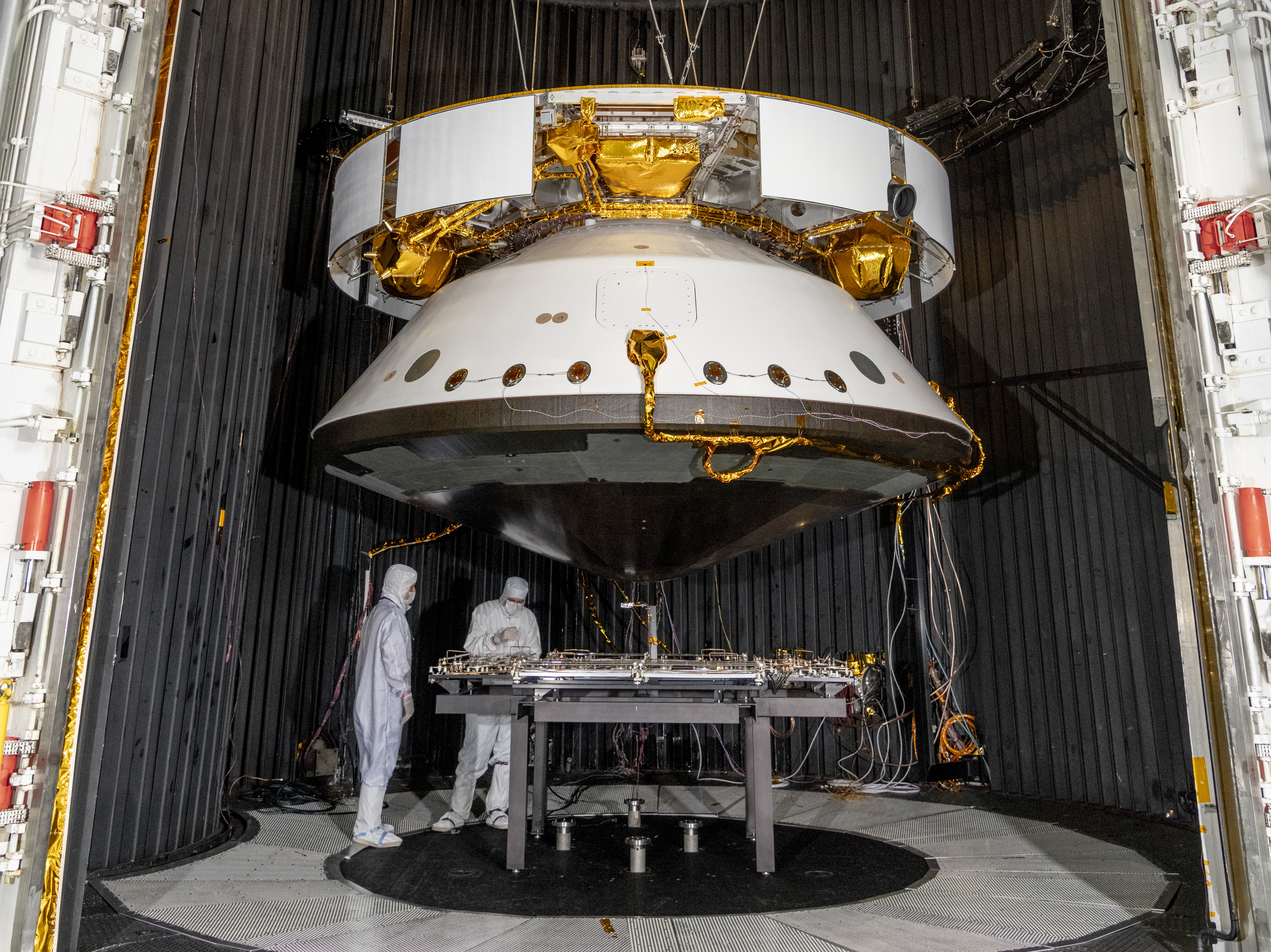 Mars 2020 spacecraft thermal vacuum test M2020 Solar Mapping in the 25ft Chamber Requester: David Gruel Photographer: Gregory M. Waigand Date: 2019-04-26 Photolab order: 070915-171696